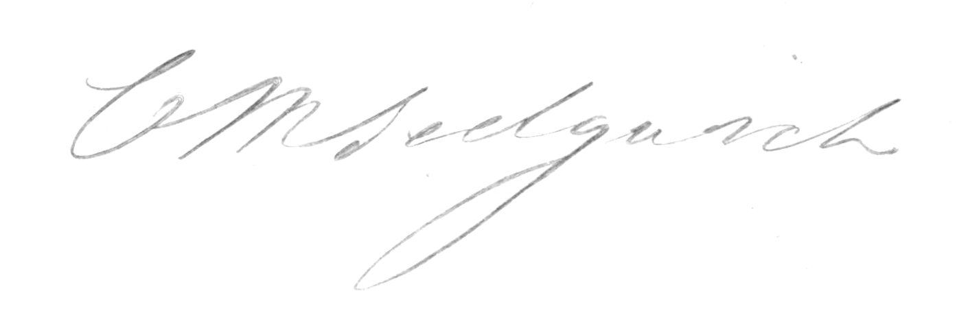 Illustration, depicting Catharine Maria Sedgwick's signature from the book Female Prose Writers of America by John Seely Hart.